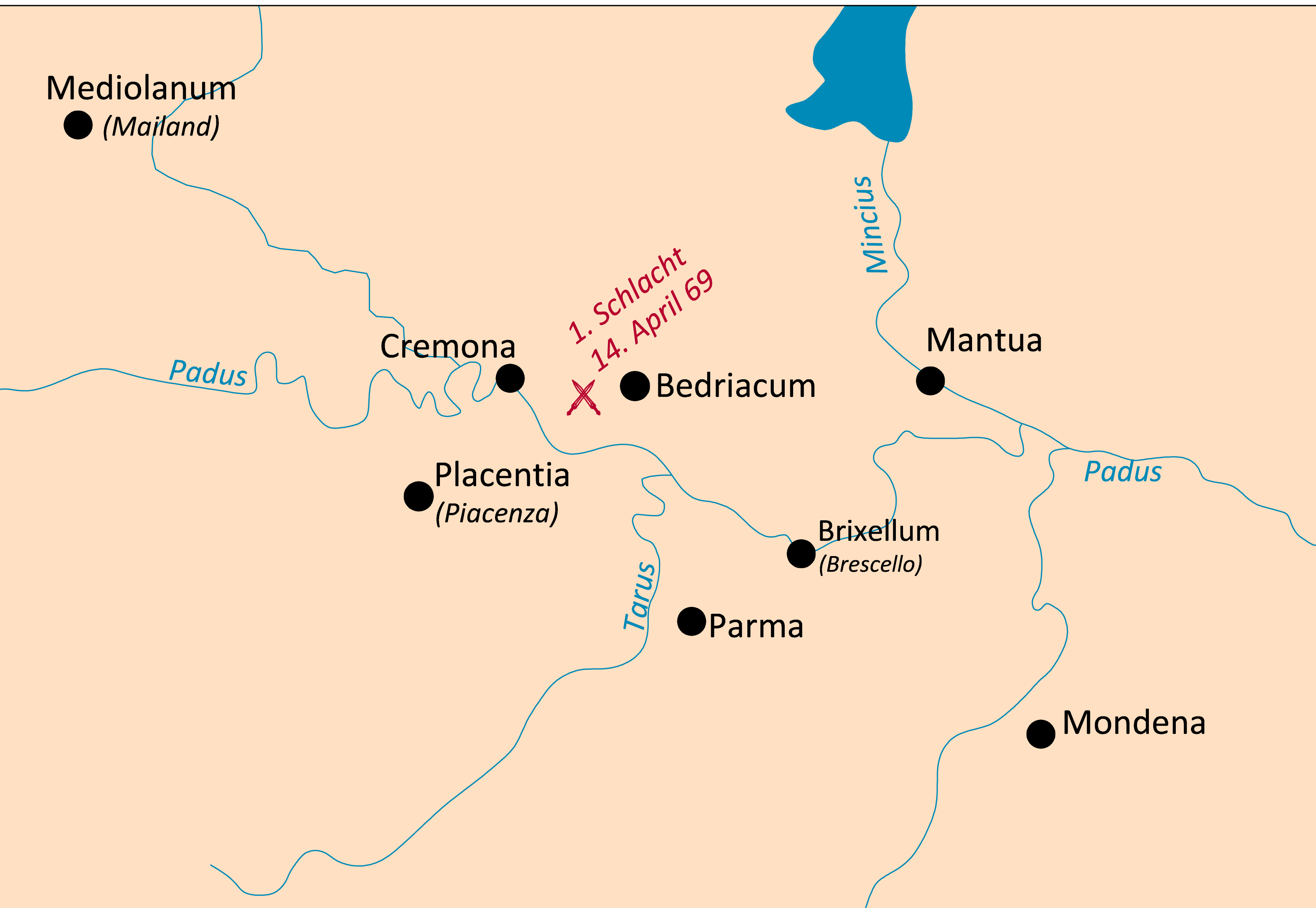 Location of the Battelfield of Bedricum April 69